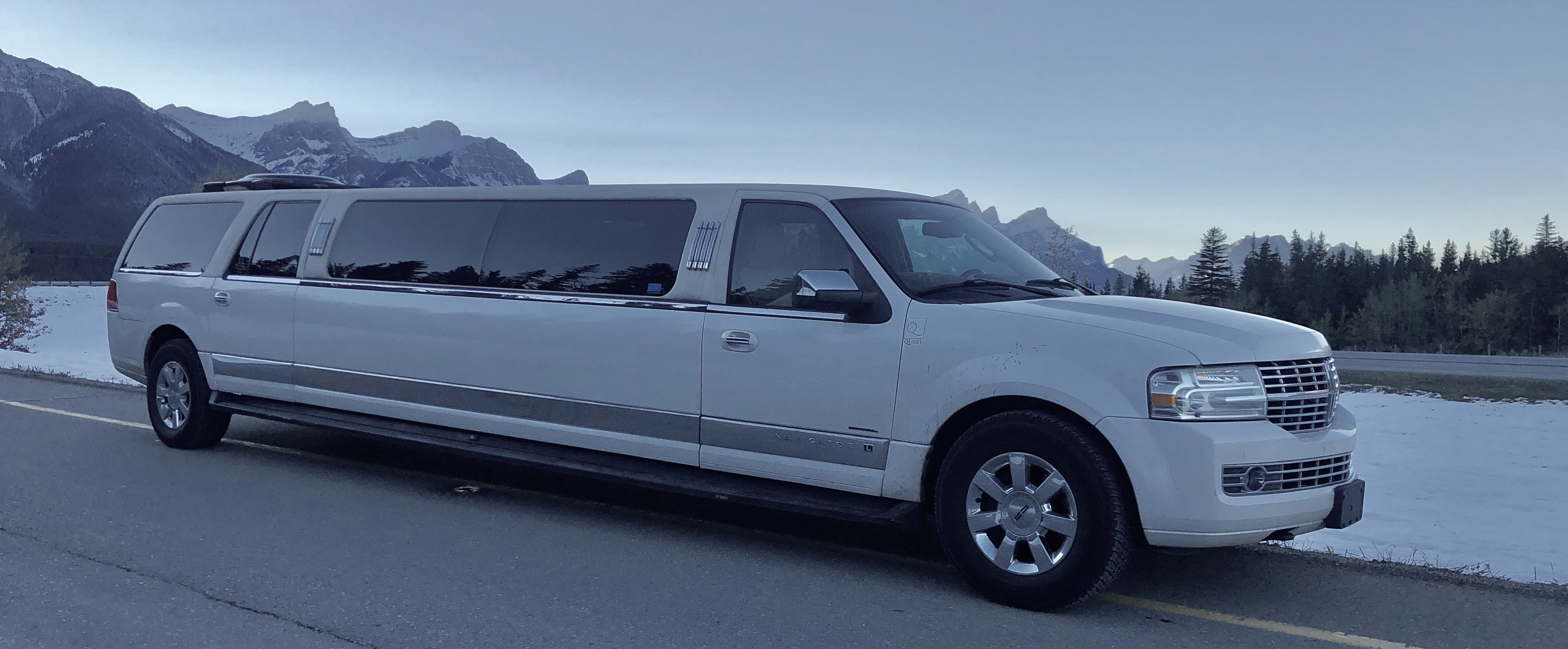 Lincoln Navigator Stretch Limousine